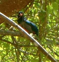 Male Slaty-tailed Trogon, Trogon massena, at Villa Lapas Costa Rica. My image, February 2006 jimfbleak 07:30, 4 March 2006 (UTC)